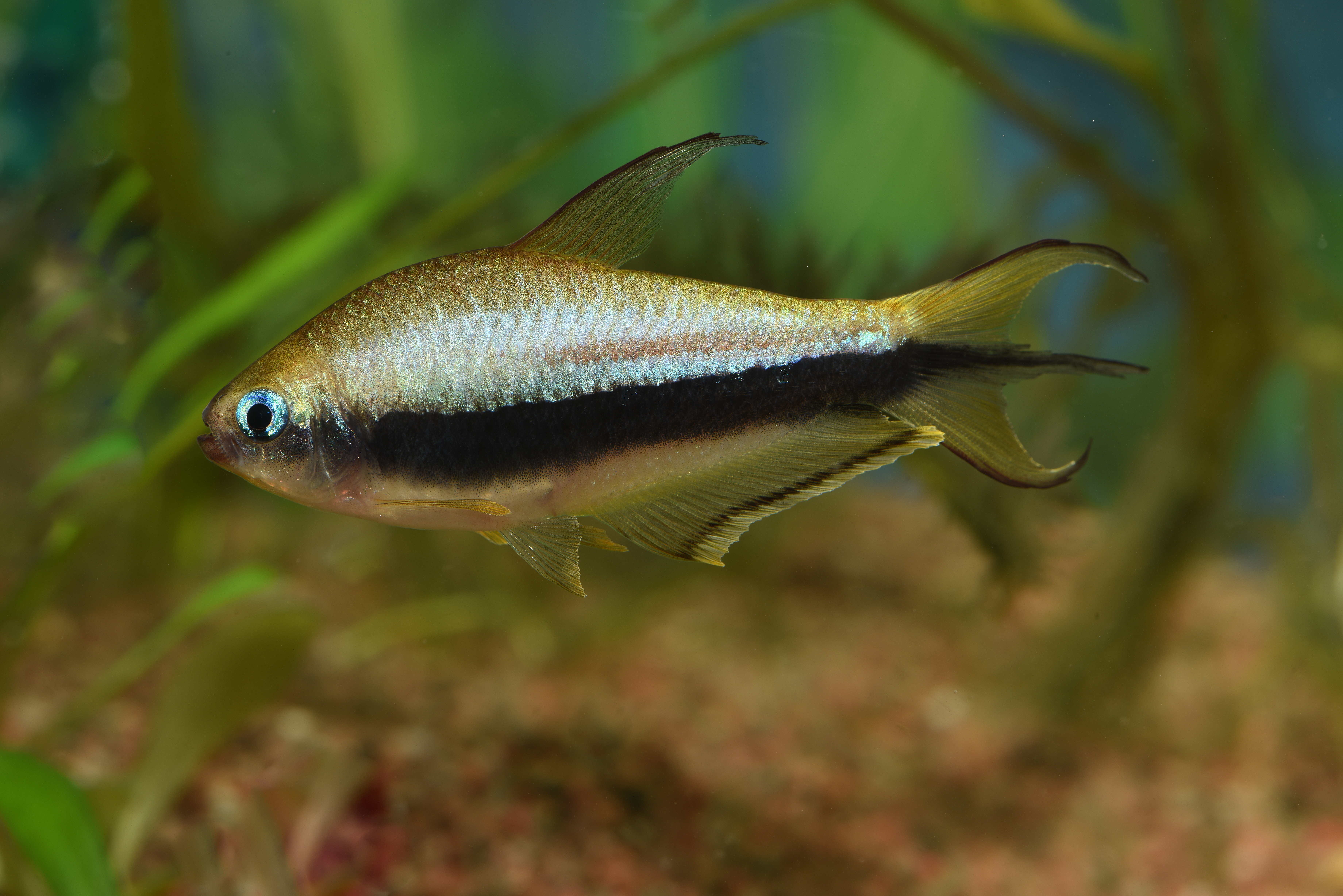 Male emperor tetra Nematobrycon palmeri in aquarium